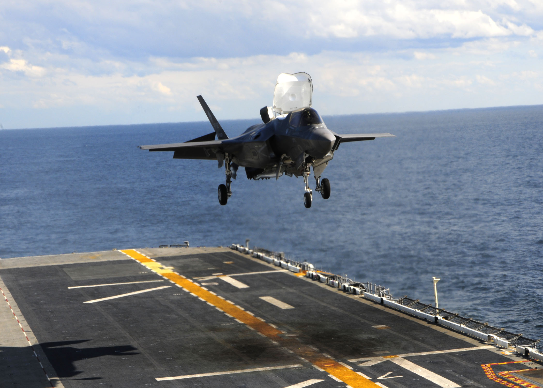 The F-35B Lightning 11 prepares to vertically land for the first time at sea on the flight deck of the amphibious assault ship USS Wasp (LHD 1). The F-35B is the Marine Corps Joint Strike Force variant, designed for short takeoff and vertical landing on Navy amphibious ships. The purpose of F-35B sea trials on USS Wasp (LHD-1) is to test F-35B systems and ship’s support functions.